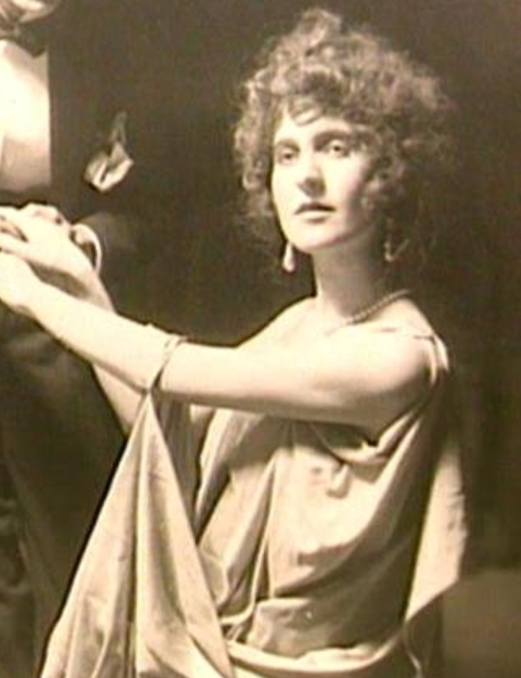 A still of Gussy Holl in F.W. Murnau's Desire (1921).